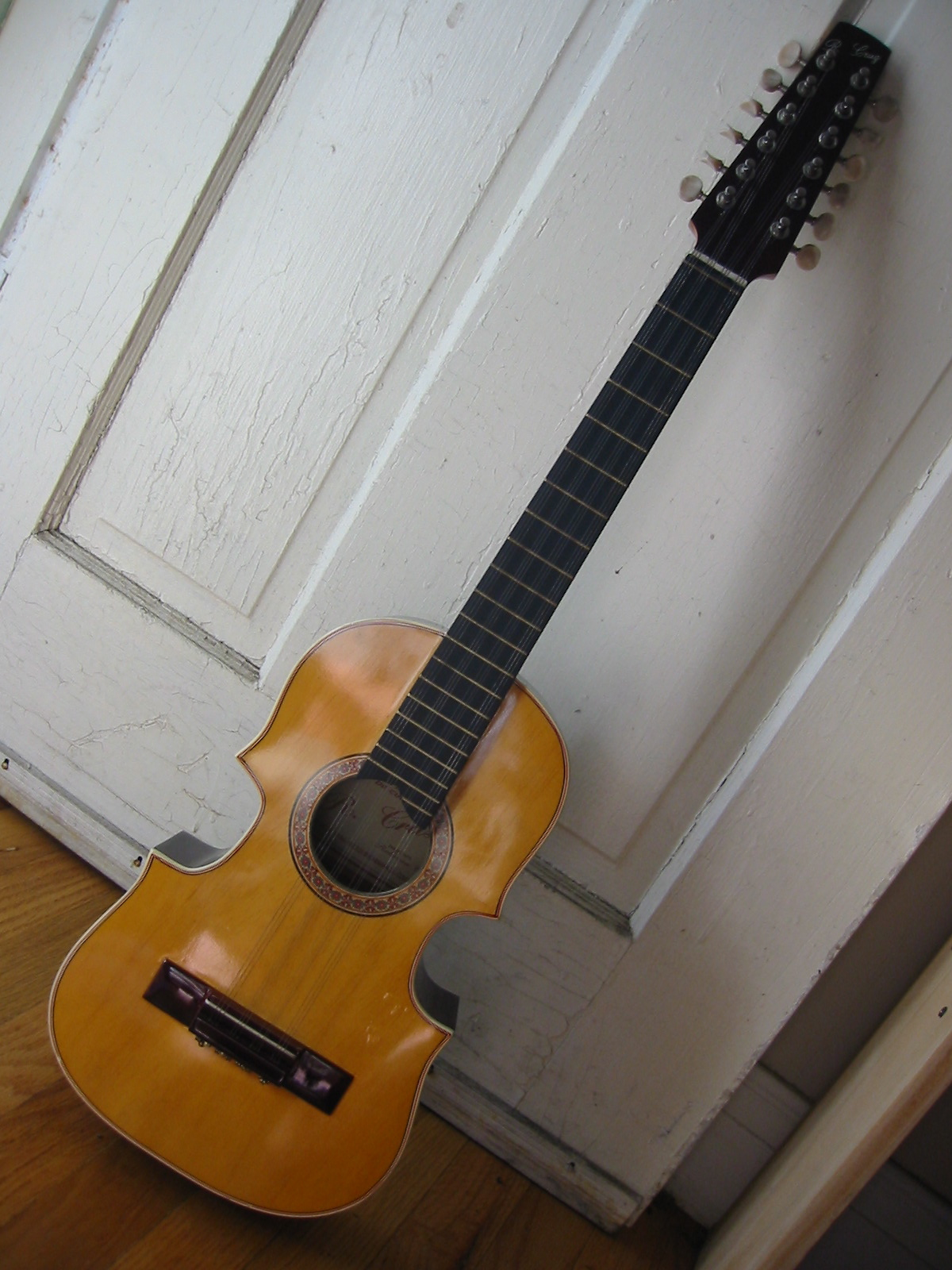 Tiple requinto purchased in Bogota, Clombia, Summer 2007.